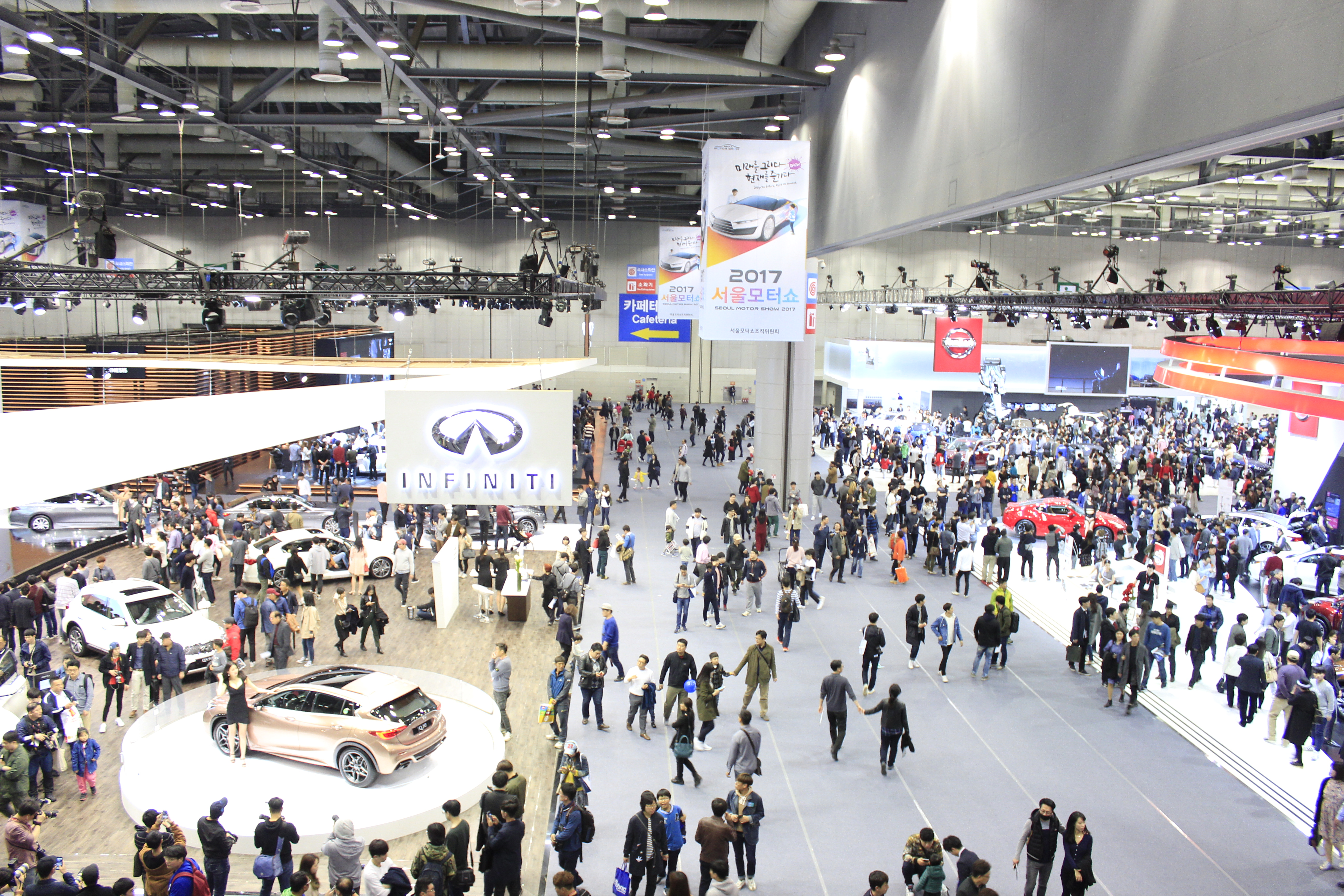 2017 Seoul Motor Show